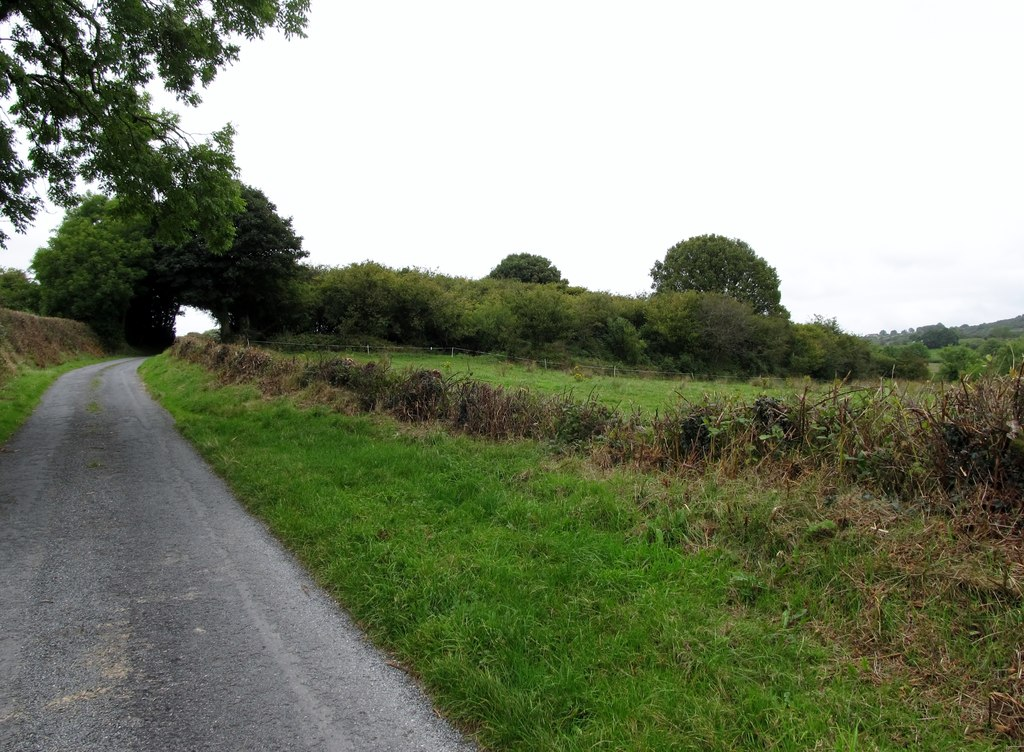 "The Dorsey" an Iron Age Linear Earthwork crossing Bonds Road